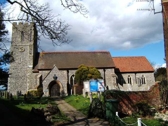 St Nicholas Church. There has been a church on this site since before the Norman conquest.